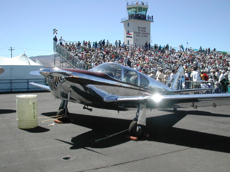 A Globe Swift, competing for the classic restoration prize at the Reno Air Races 2003.